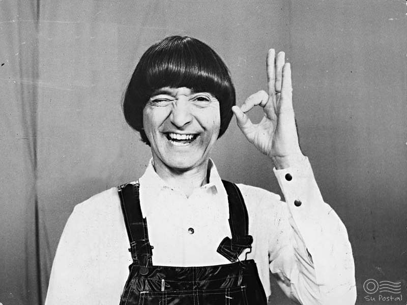 Carlitos Balá